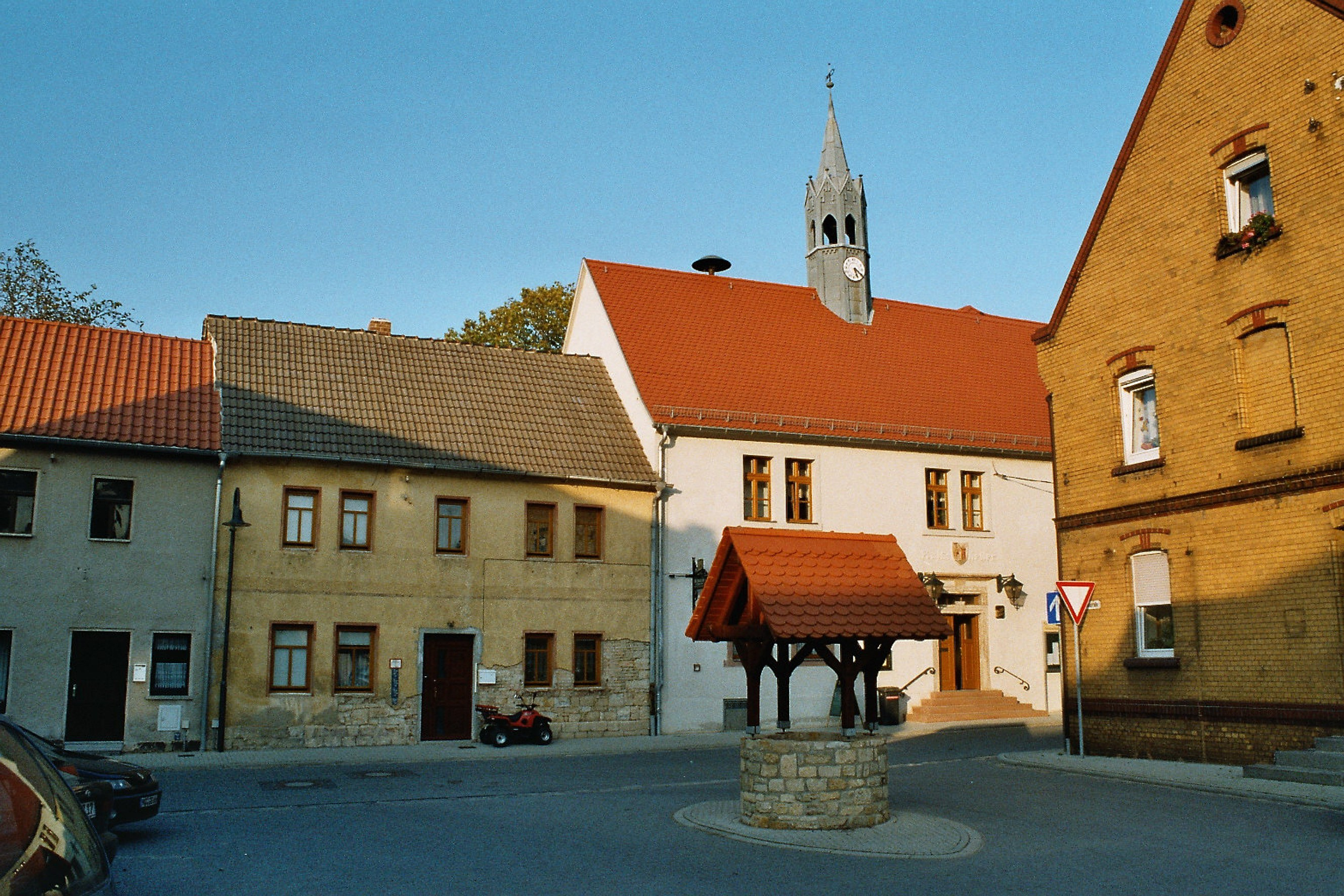 Schraplau, townhall, town square and well